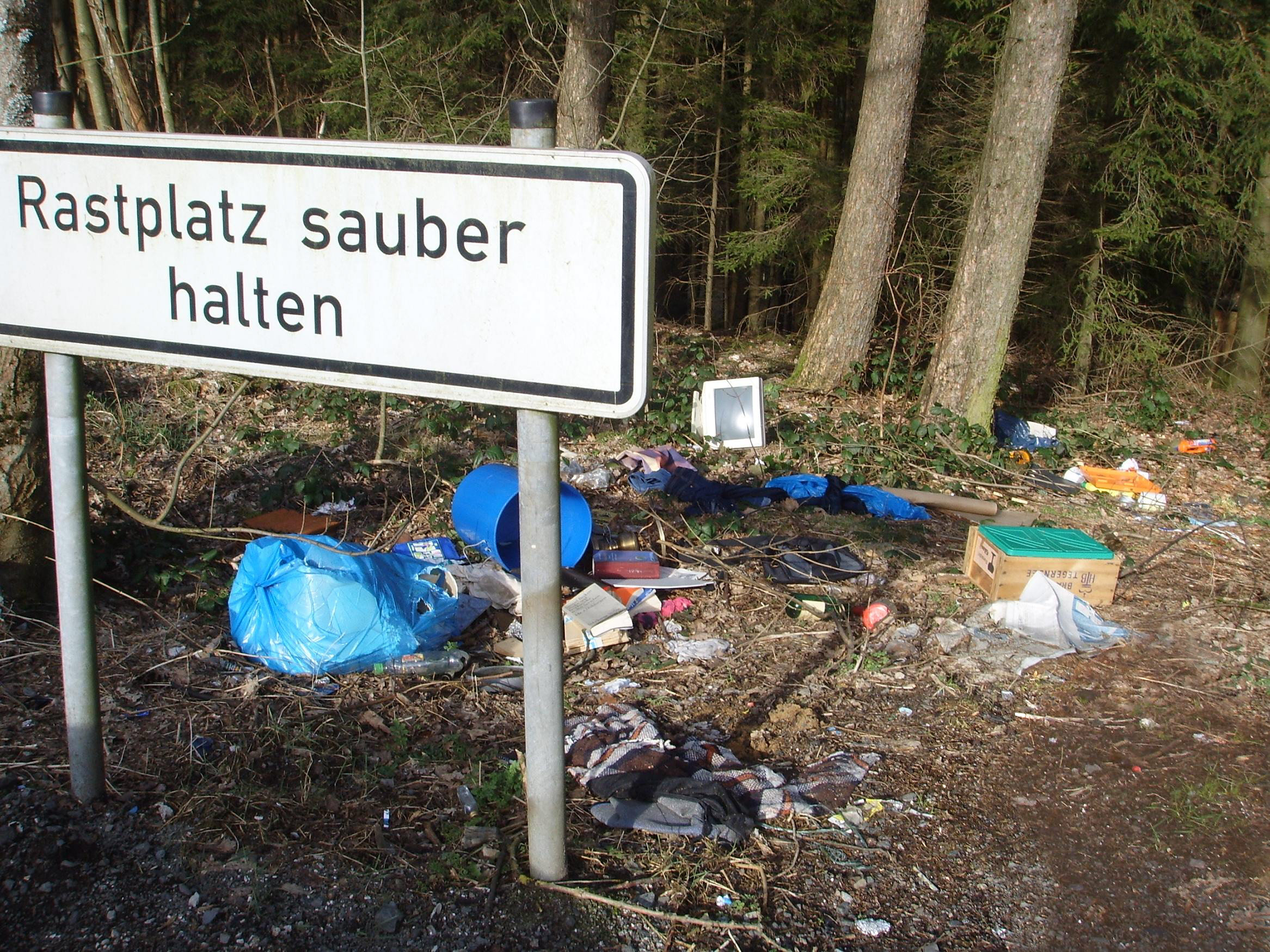 A garbaged resting area in Germany.